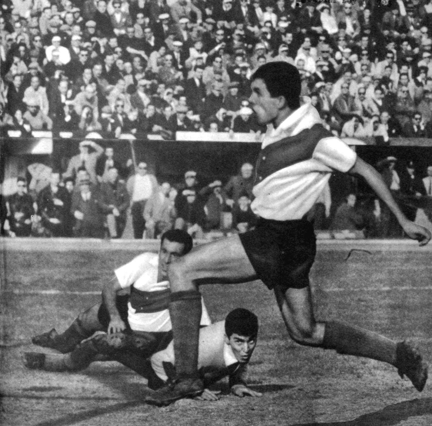 River (3) vs Boca (1), Luis Artime scoring.